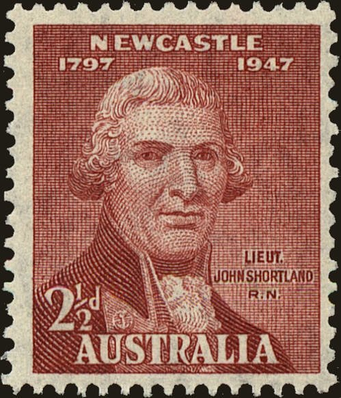 1947 Australian stamps commemorating Sesquicentenary of Newcastle showing John Shortland but the designer actually illustrated his own father